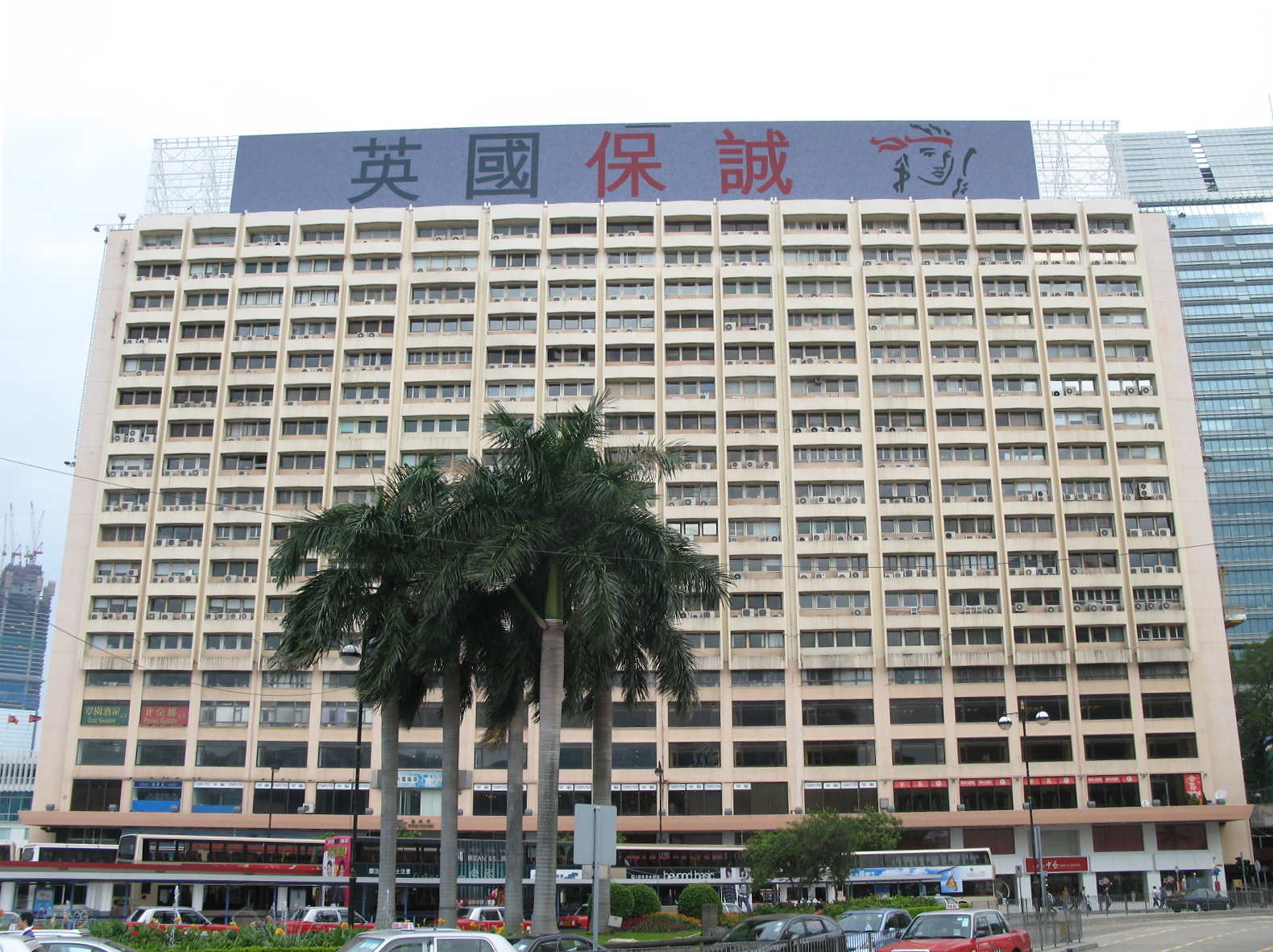 HK Star House in 2007 星光行